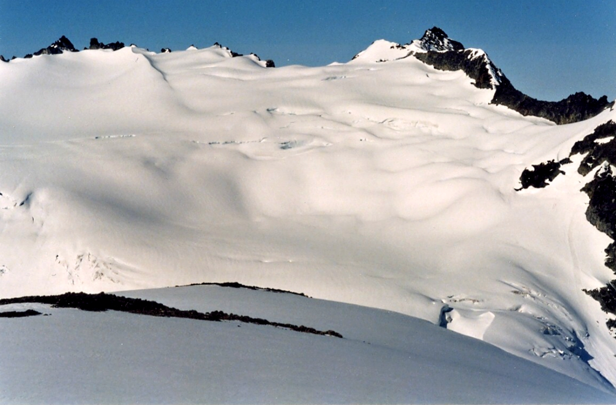 Neve Glacier seen from summit of Neve Peak (Peak 7505') in May 1998. North Cascades National Park. Annotations for The Needle and the Horseman.